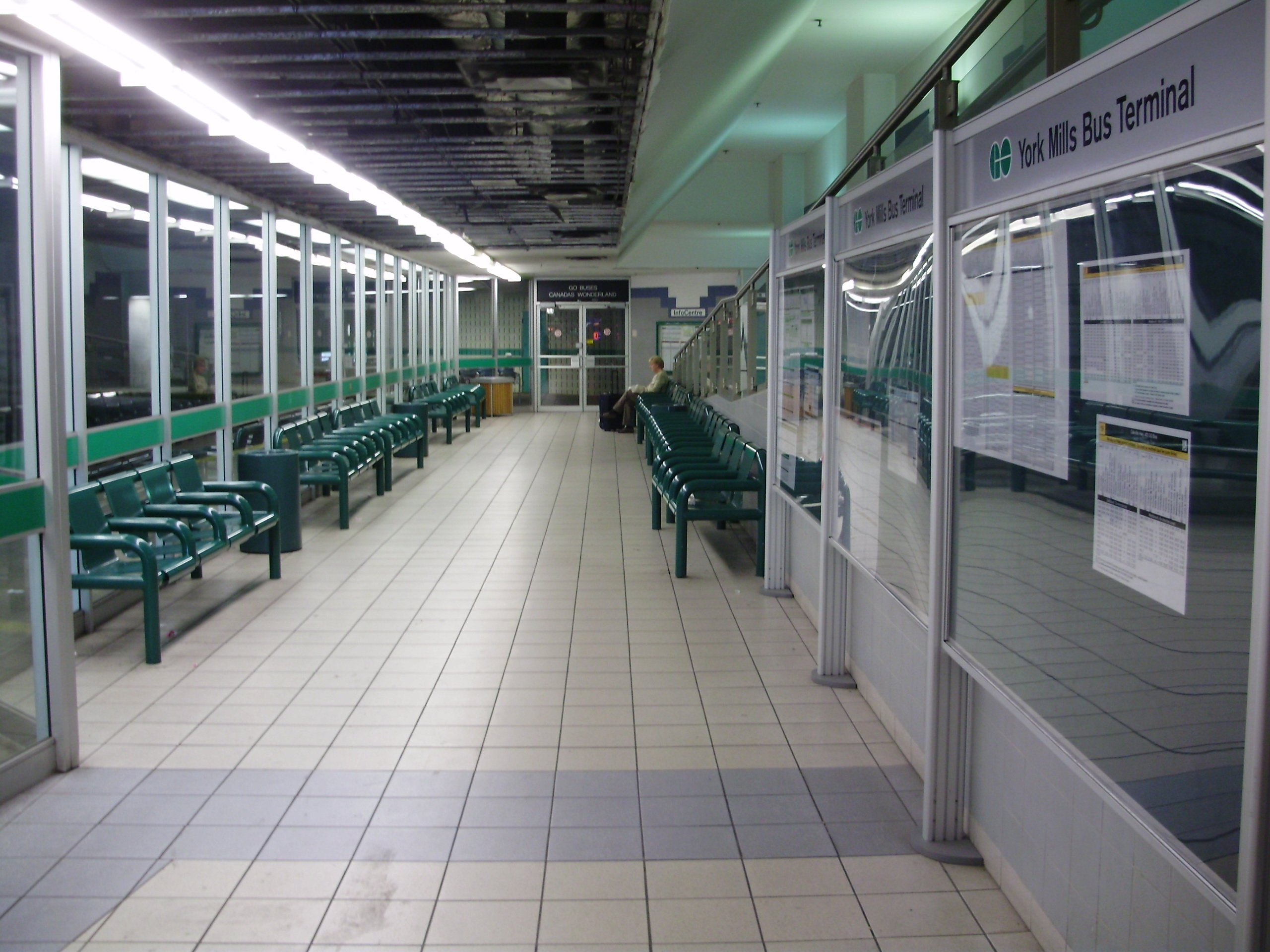 A view of the passenger waiting area at York Mills GO Bus Terminal in Toronto, Canada.